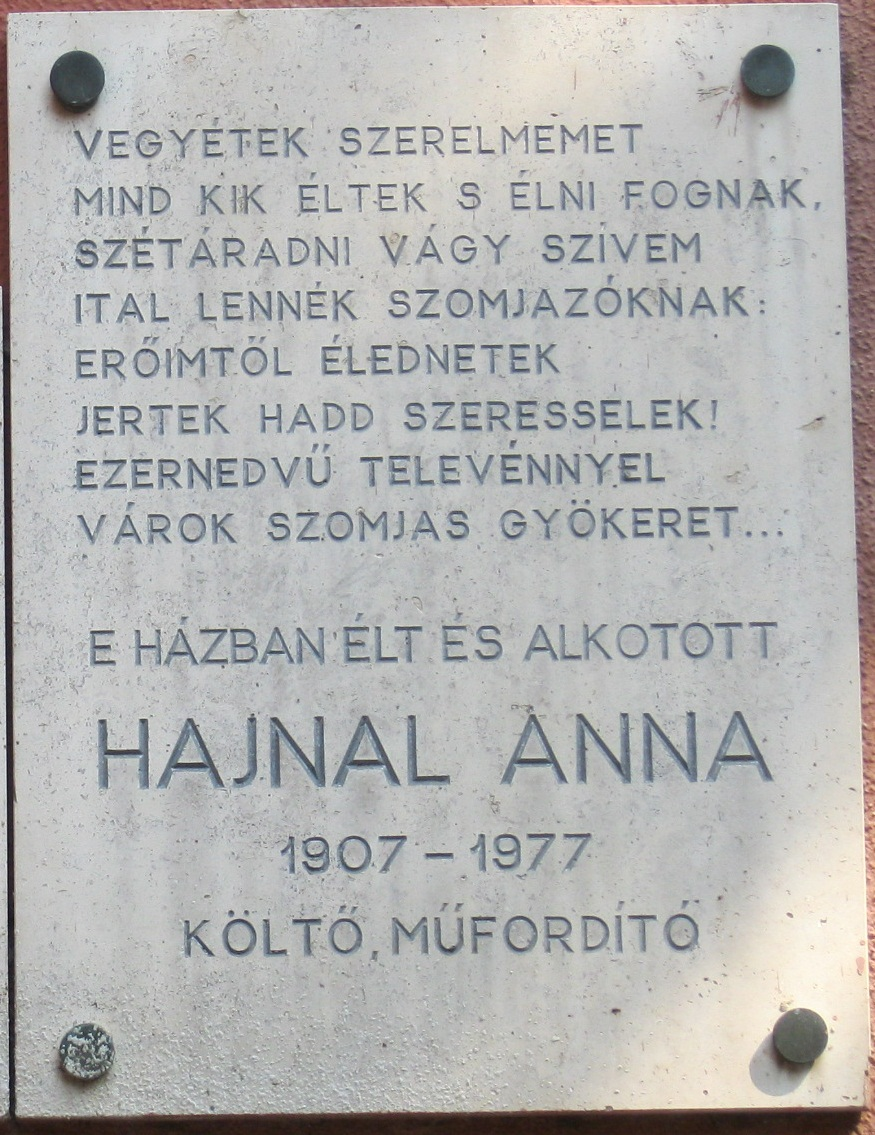 Anna Hajnal commemorative plaque in Budapest District XIV, Stefánia Street No 61